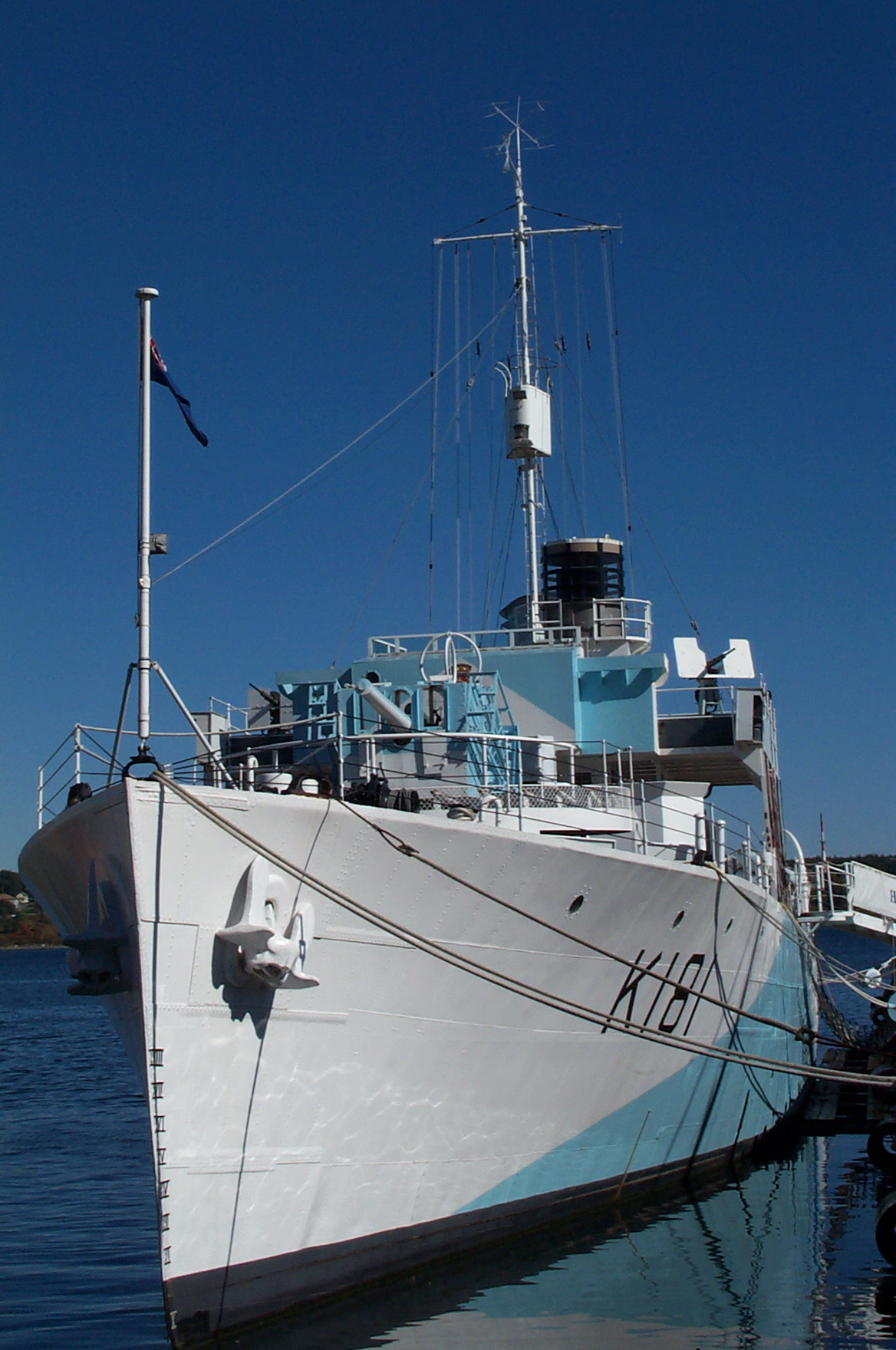 HMCS Sackville moored at her summer berth beside the Maritime Museum of the Atlantic in Halifax, Nova Scotia, Canada. I took this picture myself in 2002.